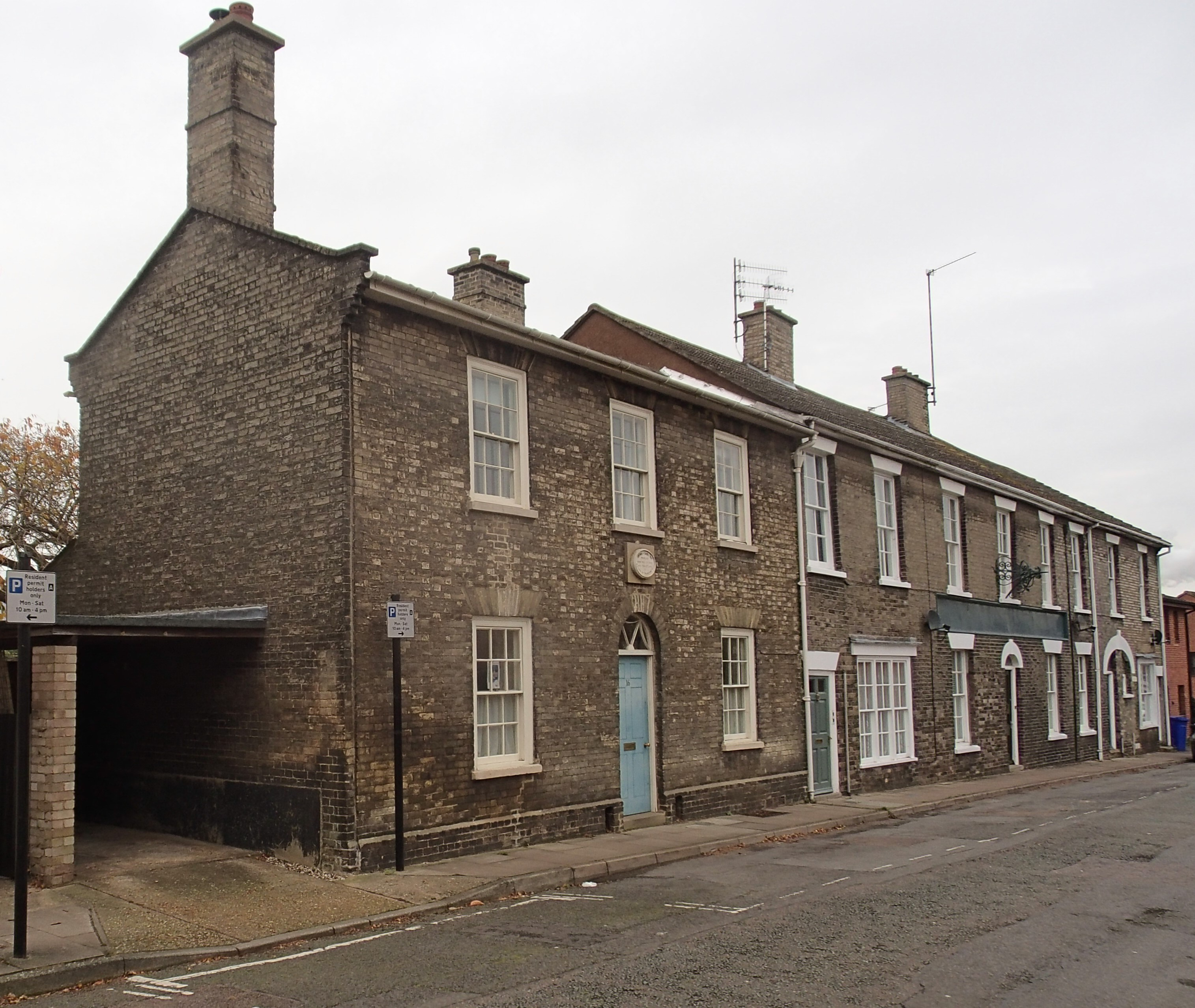 Range of buildings in Long Brackland including Henry Cockton's house (foreground) and the former Seven Stars Inn (marked by board where the name was displayed and the support for the lost inn sign).